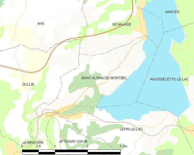 Map of French municipality